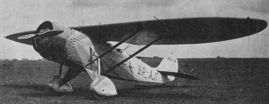 Long range touring variant of Lublin R-XIII Dr aircraft.